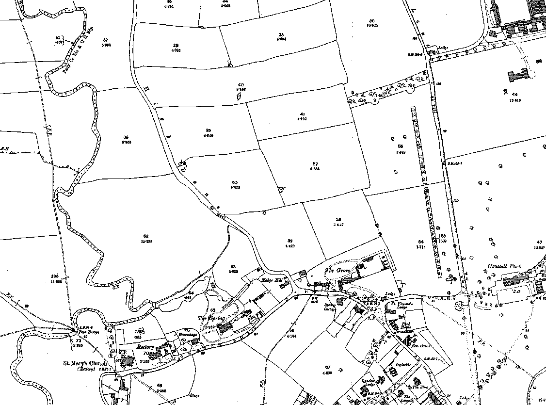 Hanwell village in 1894